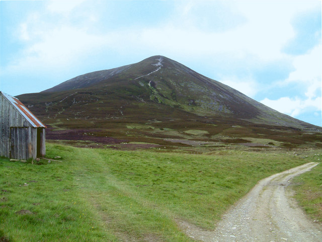 Carn Liath (Beinn a'Ghlo) Although this was taken on a sunny day in June there were snow showers on the summit an hour later.